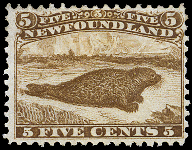 Postage stamp of Newfoundland, 1865, scott#25, 5 cents.